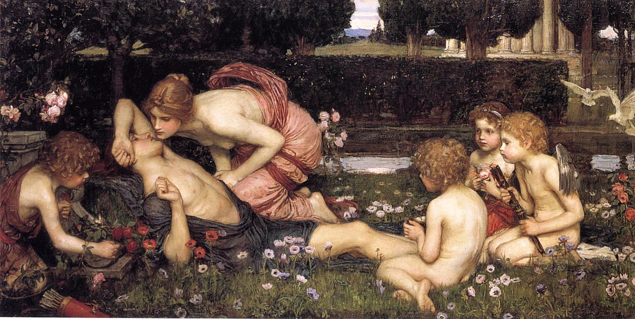 See Sotheby's: Waterhouse's great mythological subject The Awakening of Adonis (Collection of Lord Lloyd-Webber) was painted in 1899, but was not finished in time to send to the Royal Academy that year, and was therefore held over to the summer exhibition of 1900. On that occasion it was recognised as one of the artist's most powerful and characteristic works and one that aimed, in the words of one reviewer, "at representing the passionate emotions of an historic tragedy in a highly dramatic fashion" (Athenaeum, 1900, p.568). The painting may be seen as one in a series of spectacular and challenging works by Waterhouse, each of which show moments of fateful confrontation between the gods and mortals of Greek and Roman legend, and may be compared to Hylas and the Nymphs (Manchester City Art Gallery) and Flora and the Zephyrs (offered in these rooms, 6 November 1996, lot 307), of 1896 and 1897 respectively. The series ended with the painting Nymphs Finding the Head of Orpheus (private collection), exhibited in 1901, the year after The Awakening of Adonis.